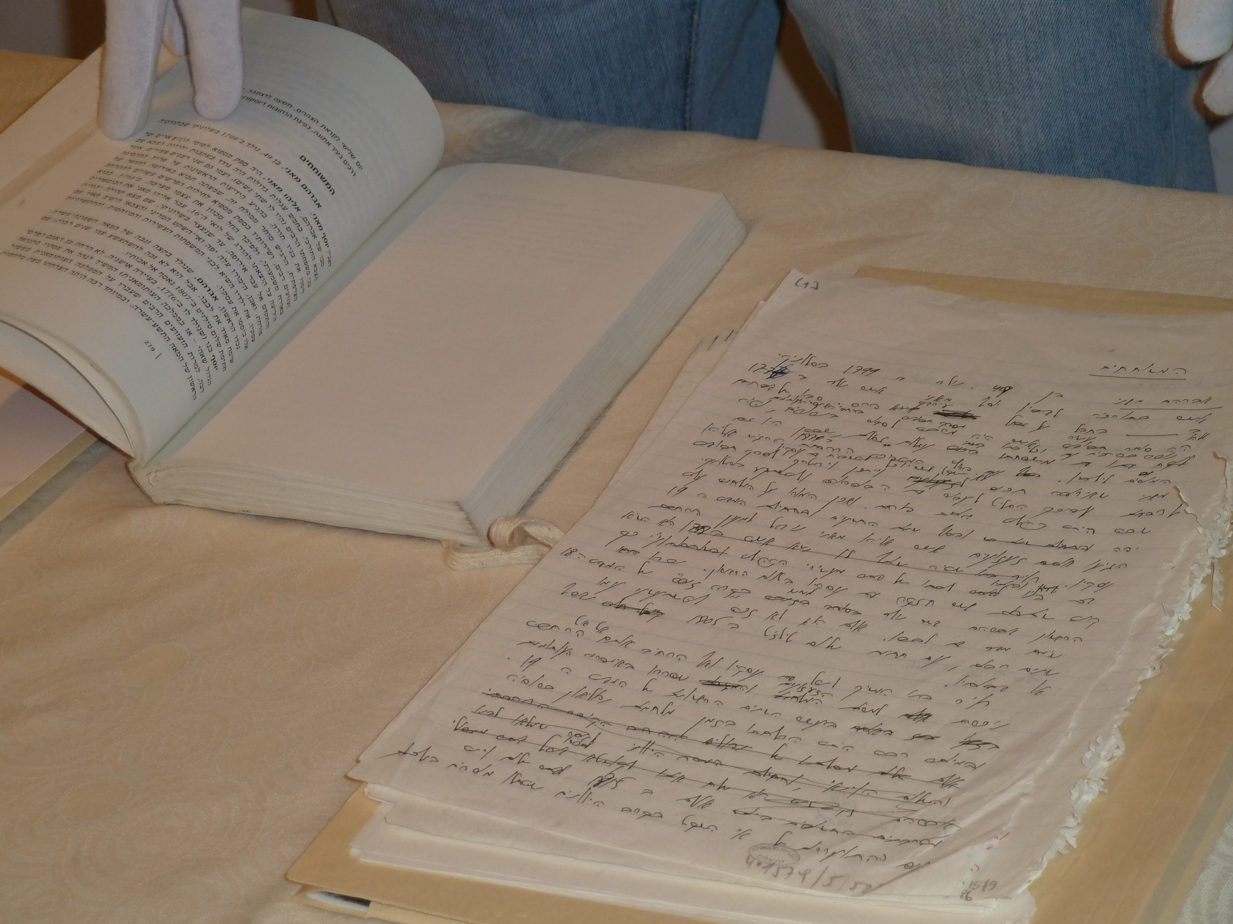 GLAM National Library of Israel Tour